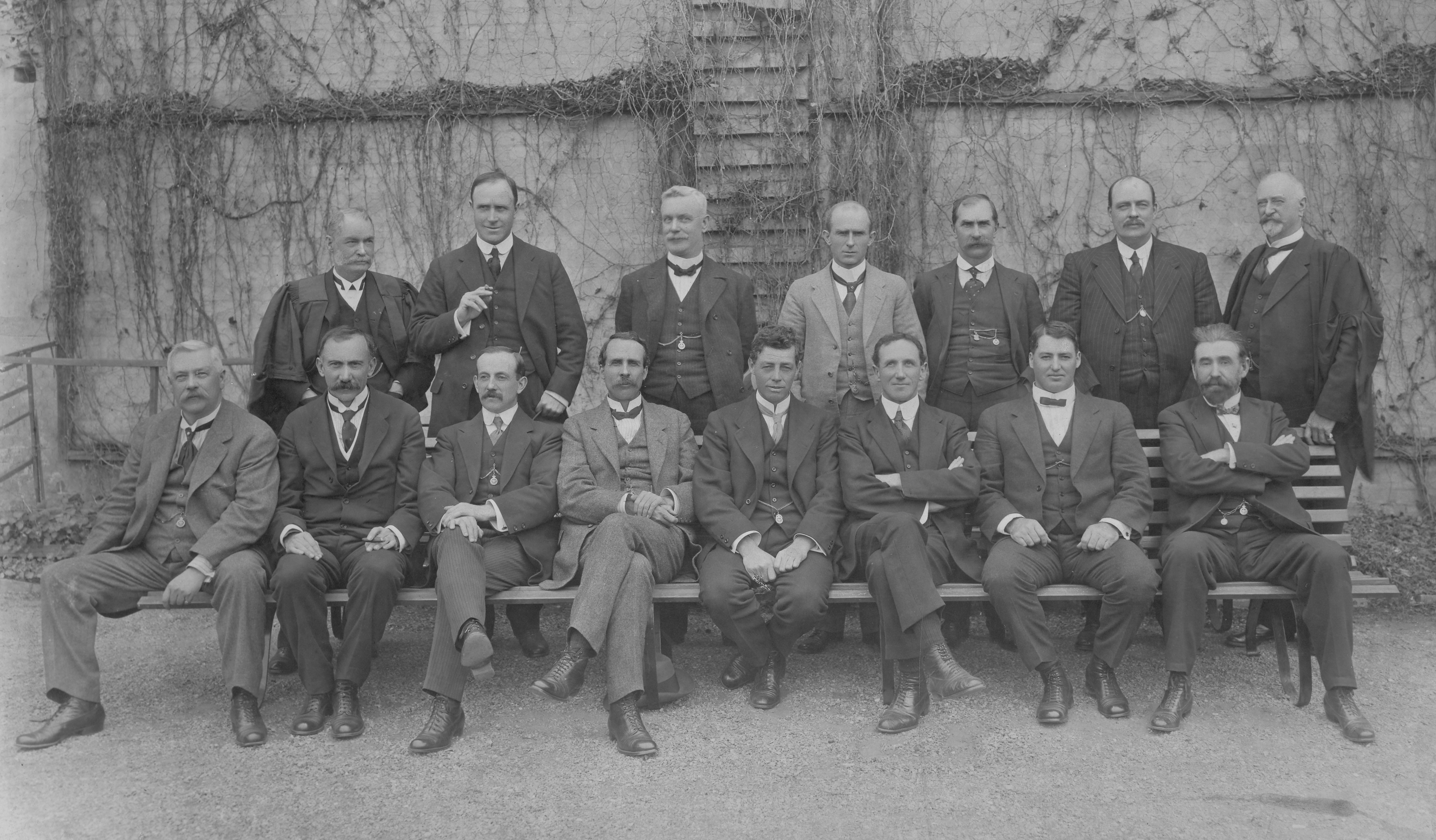 Attendees at the Premiers Conference in Adelaide in May 1916. Standing John Cummins Morphett, clerk of the South Australian House of Assembly Harry Lawson, Attorney-General of Victoria William Webster, Federal Postmaster-General David Hall, Attorney-General of New South Wales Reginald Blundell, Minister for Industry, South Australia John Scaddan, Premier of Western Australia Alfred Searcy, assistant clerk of the South Australian House of Assembly Seated Alexander Peacock, Premier of Victoria William Higgs, Federal Treasurer Walter Lee, Premier of Tasmania George Pearce, Acting Prime Minister of Australia Crawford Vaughan, Premier of South Australia, president of the conference William Holman, Premier of New South Wales Ted Theodore, Acting Premier of Queensland King O'Malley, Federal Minister for Home Affairs